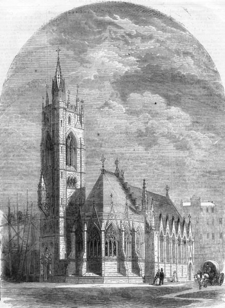 Circa 1860 woodcut of Holy Trinity Church, Hastings, England showing the tower that was never actually built.